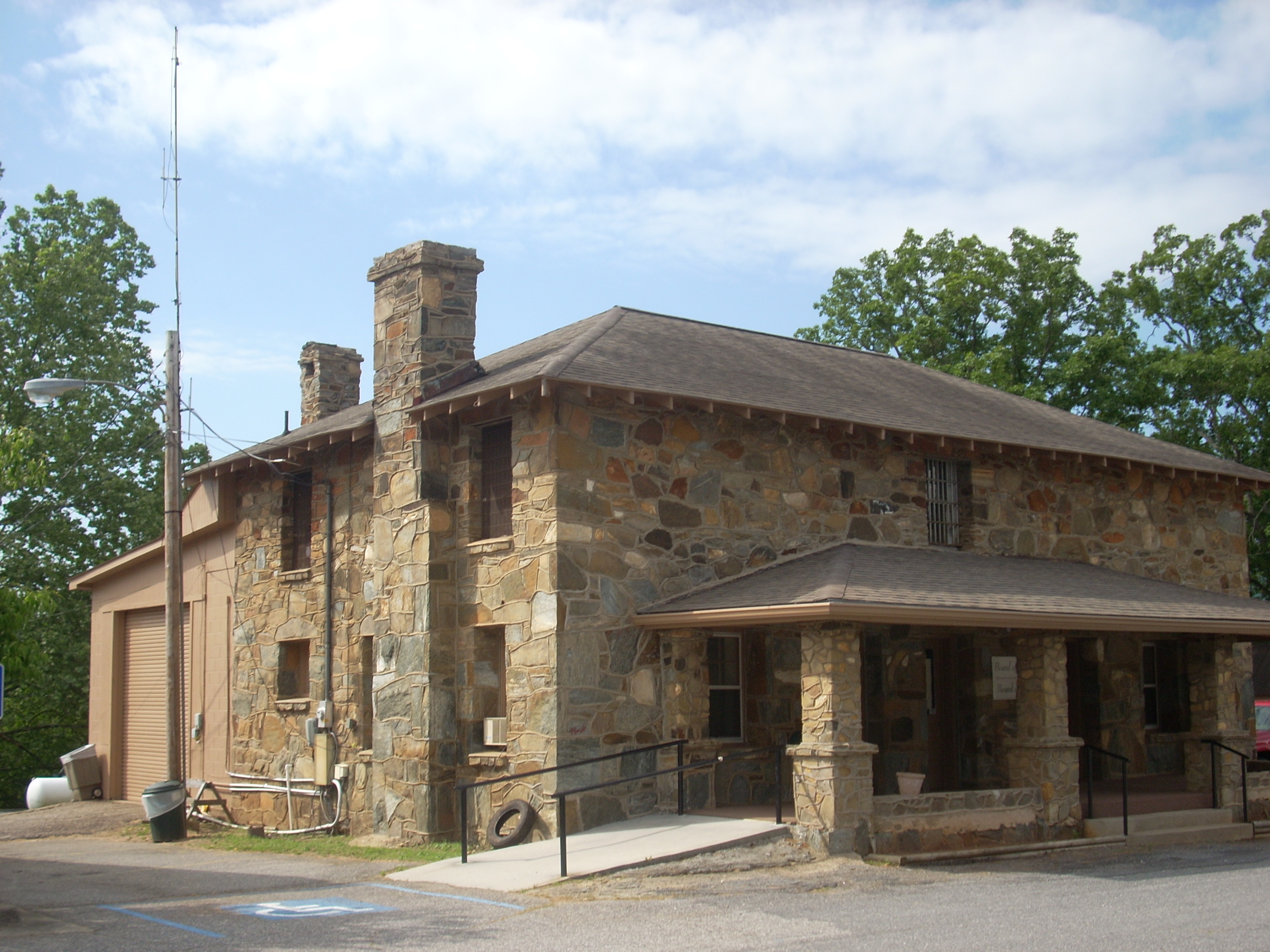 Old Towns County Jail, Hiawassee (Towns County, Georgia) Currently used as the Registrar's Office. On the courthouse Square. This work has been released into the public domain by its author, KudzuVine. This applies worldwide. In some countries this may not be legally possible; if so: KudzuVine grants anyone the right to use this work for any purpose, without any conditions, unless such conditions are required by law. Object location34° 56′ 47″ N, 83° 45′ 27″ W